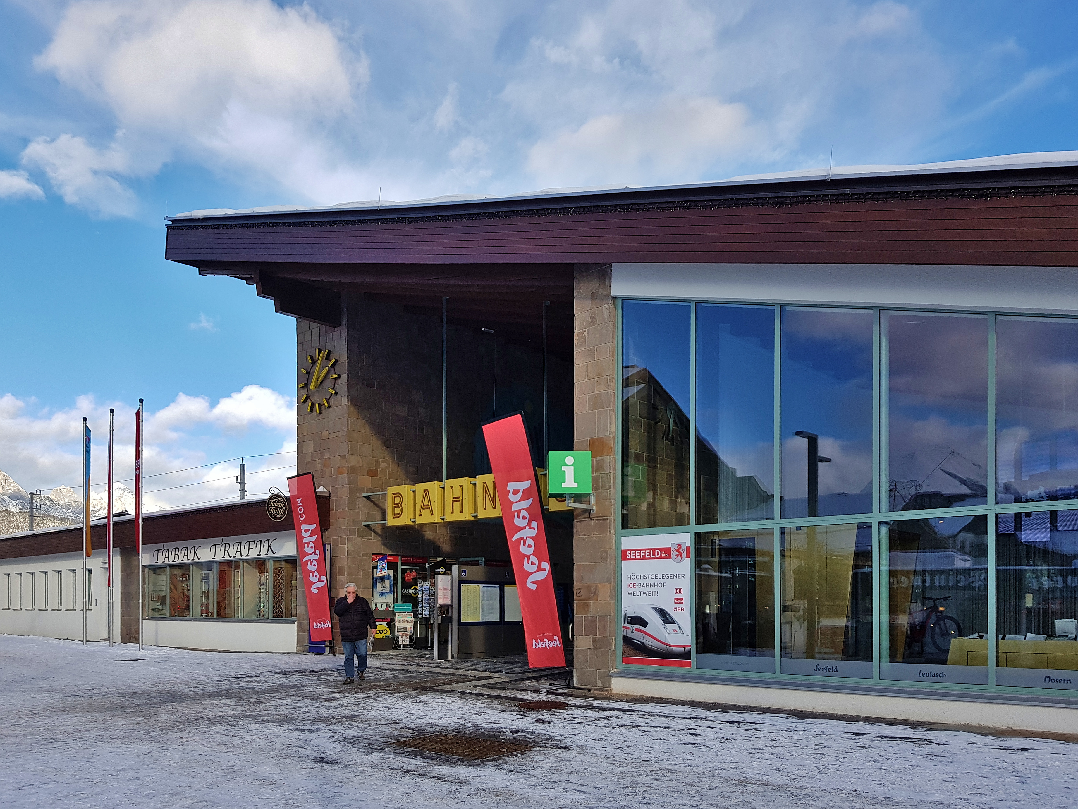 Bahnhof Seefeld in Tirol nach dessen Umbau 2017–2018.